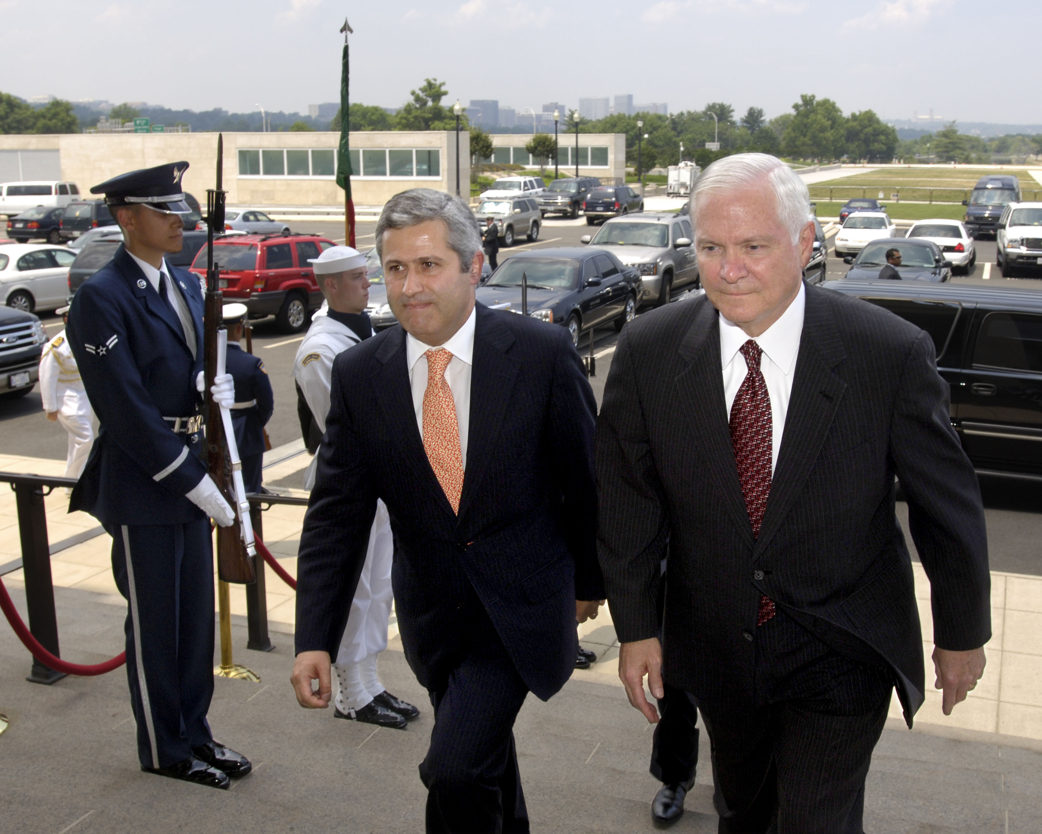 Portuguese Minister of Defense Nuno Severiano Teixeira (left) is escorted by U.S. Secretary of Defense Robert M. Gates through an honor cordon and into the Pentagon on June 8, 2007. Teixeira and Gates will meet to discuss a broad range of security issues.